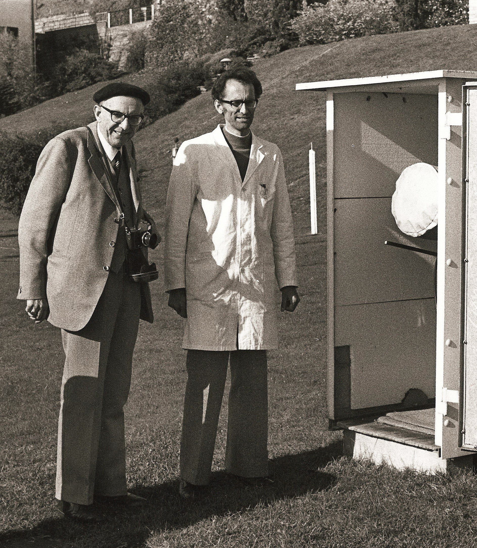 Robert A. Naef and S. Cortesi 1973 during a Transit of Mercury in Locarno-Monti, Suisse